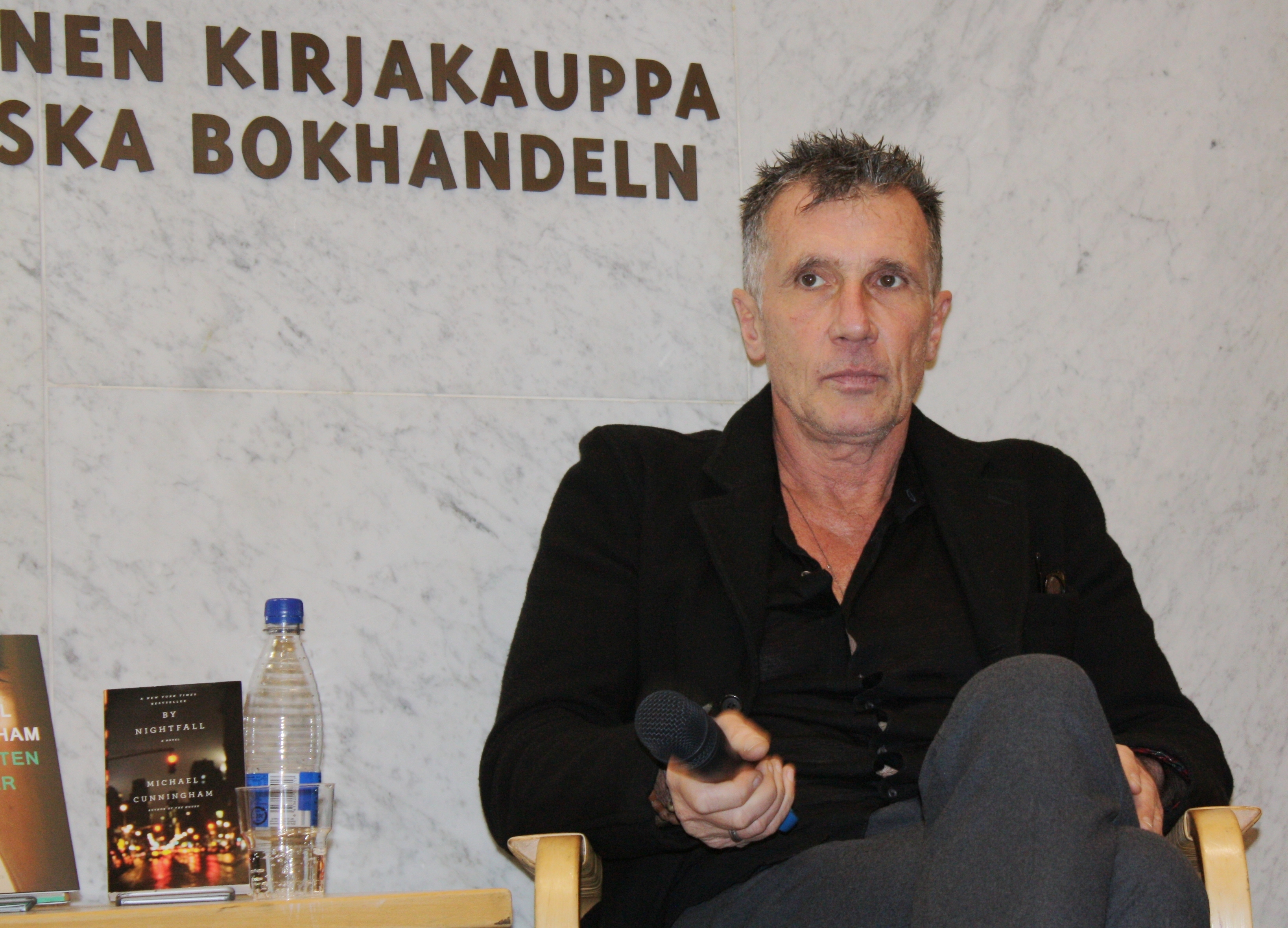 Author Michael Cunningham from USA at the bookstore Akateeminen kirjakauppa in Helsinki, Finland